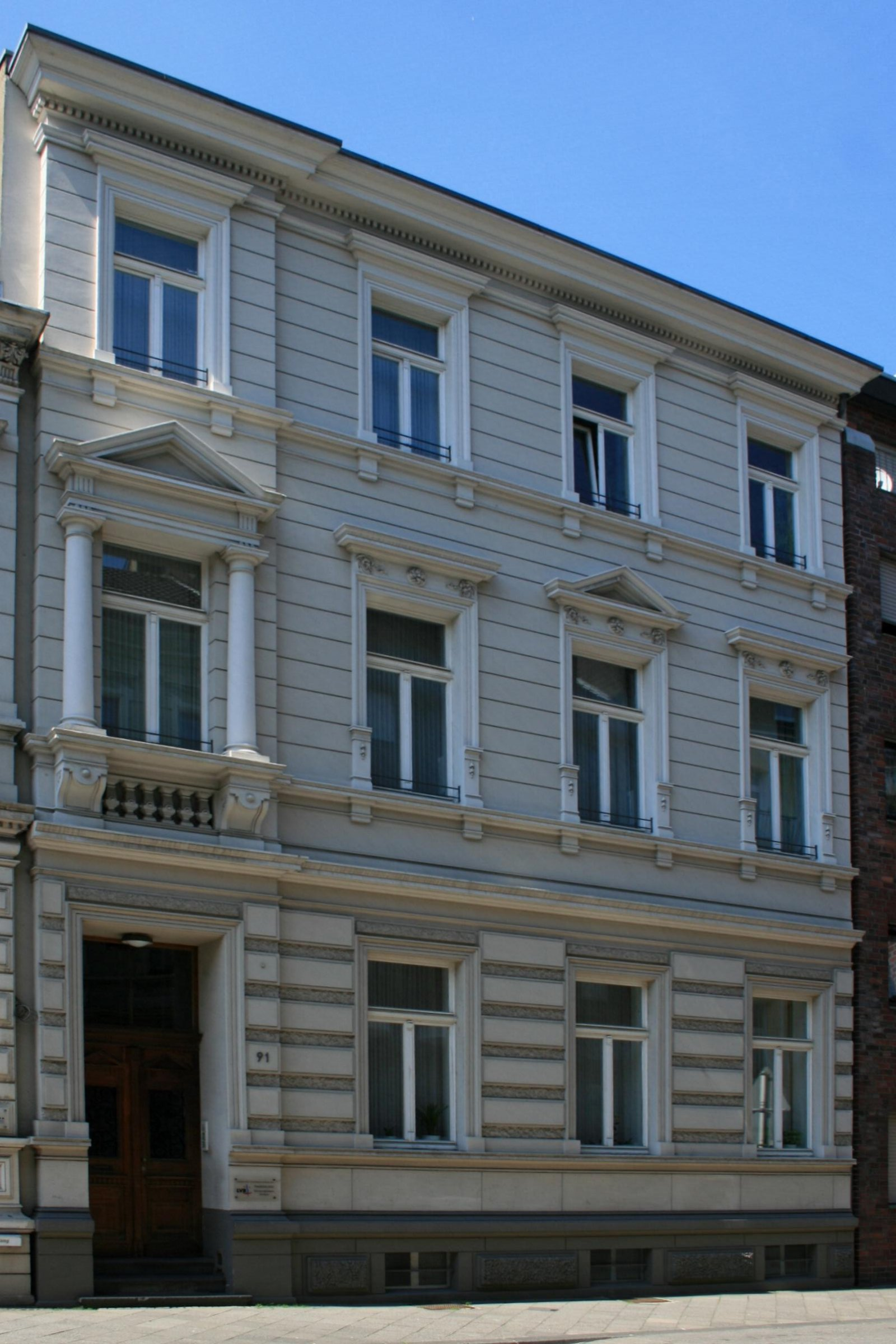 Cultural heritage monument No. R 050 in Mönchengladbach